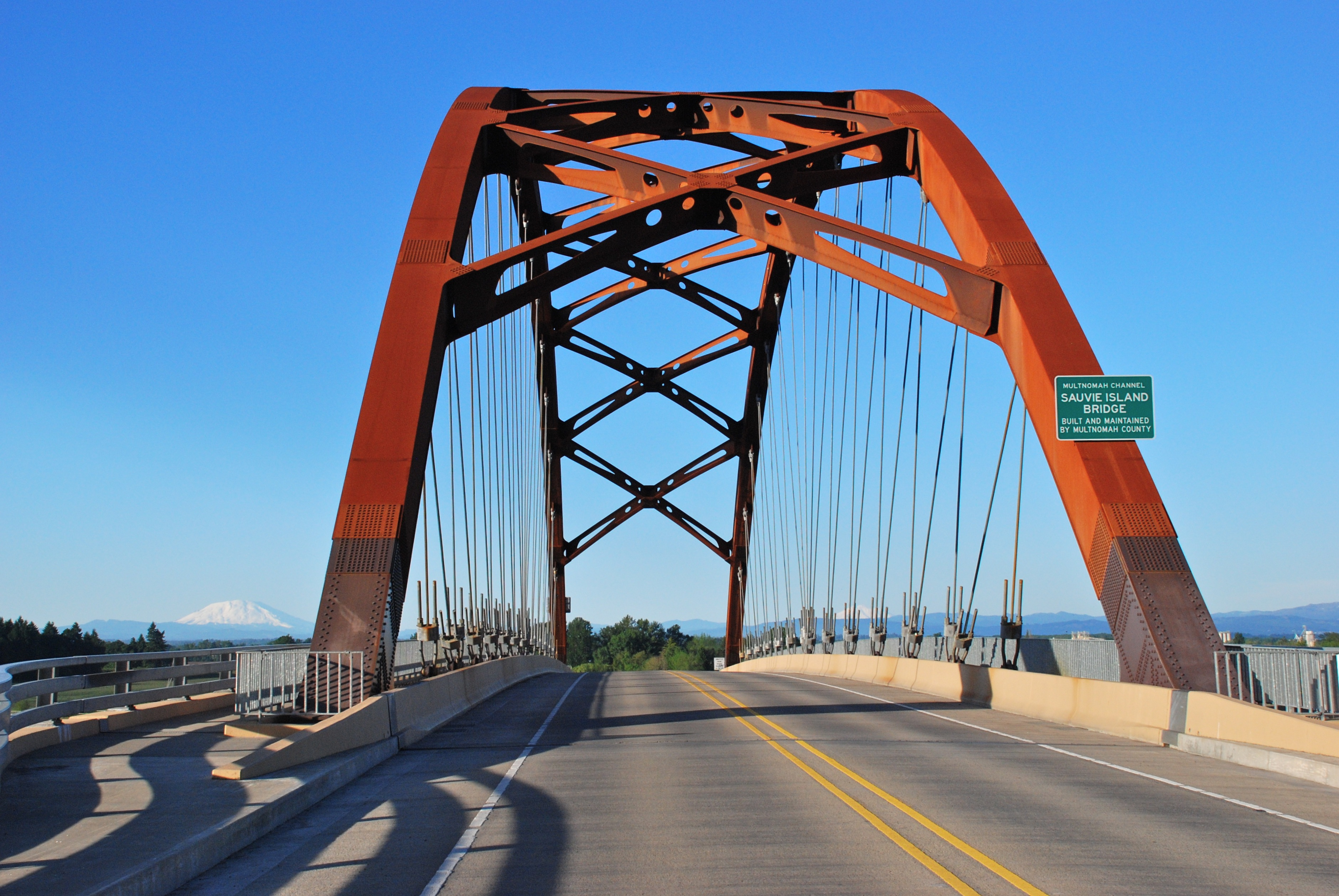 A roadway-level view of the second Sauvie Island Bridge (near Portland, Oregon), which was built in 2008 and replaced a 1950 bridge. This view is looking northeast. Mt. St. Helens, located 50 miles (80 km) away, is visible in the background (to the left of the tied-arch span). (Snow-covered Mt. Adams is also visible, through the cables on the righthand side of the arch.)